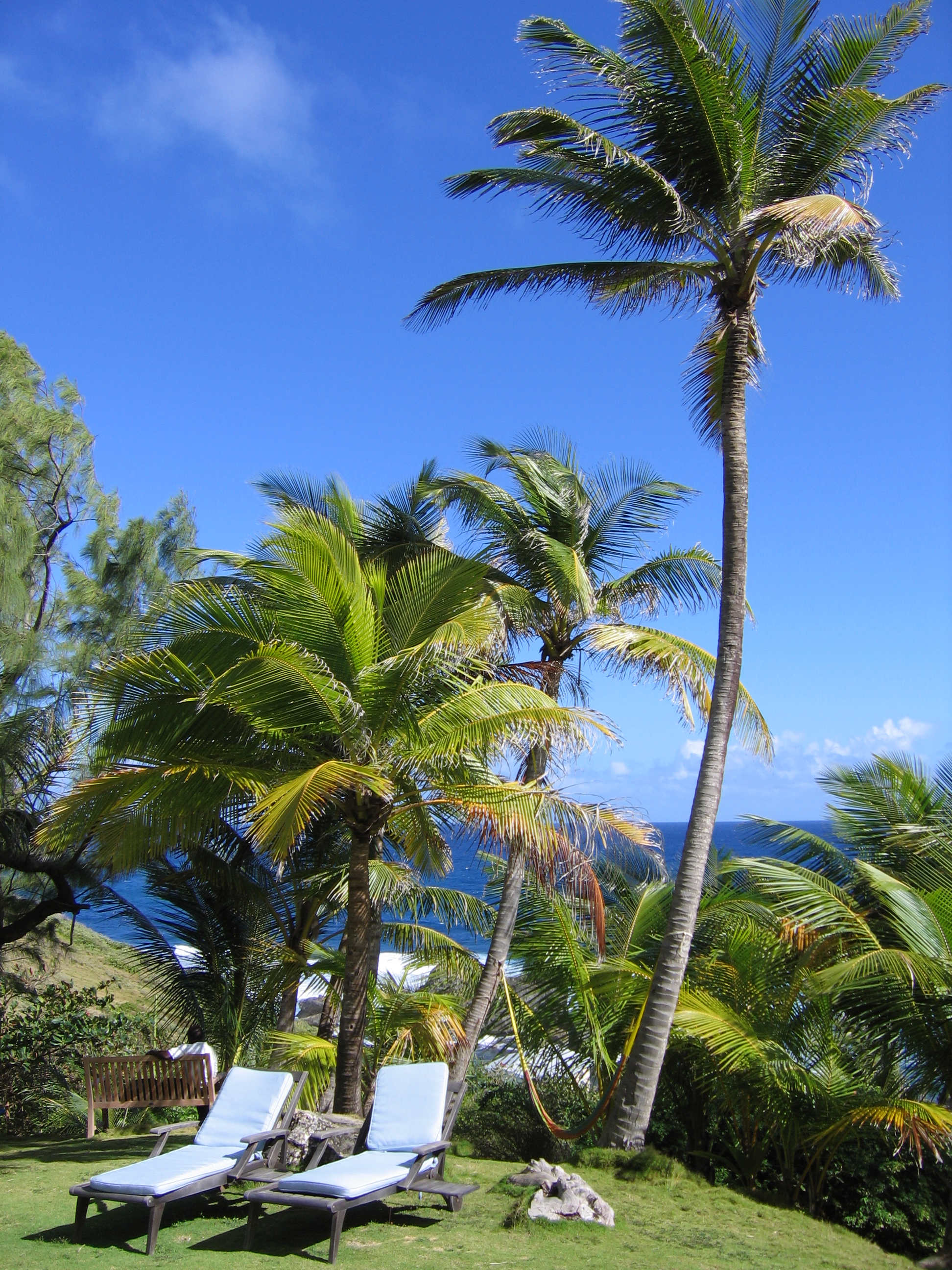 Palm trees and other vegetation behind Sea-U Guest House in Bathsheba, Saint Joseph, Barbados. View of Atlantic Ocean beyond.